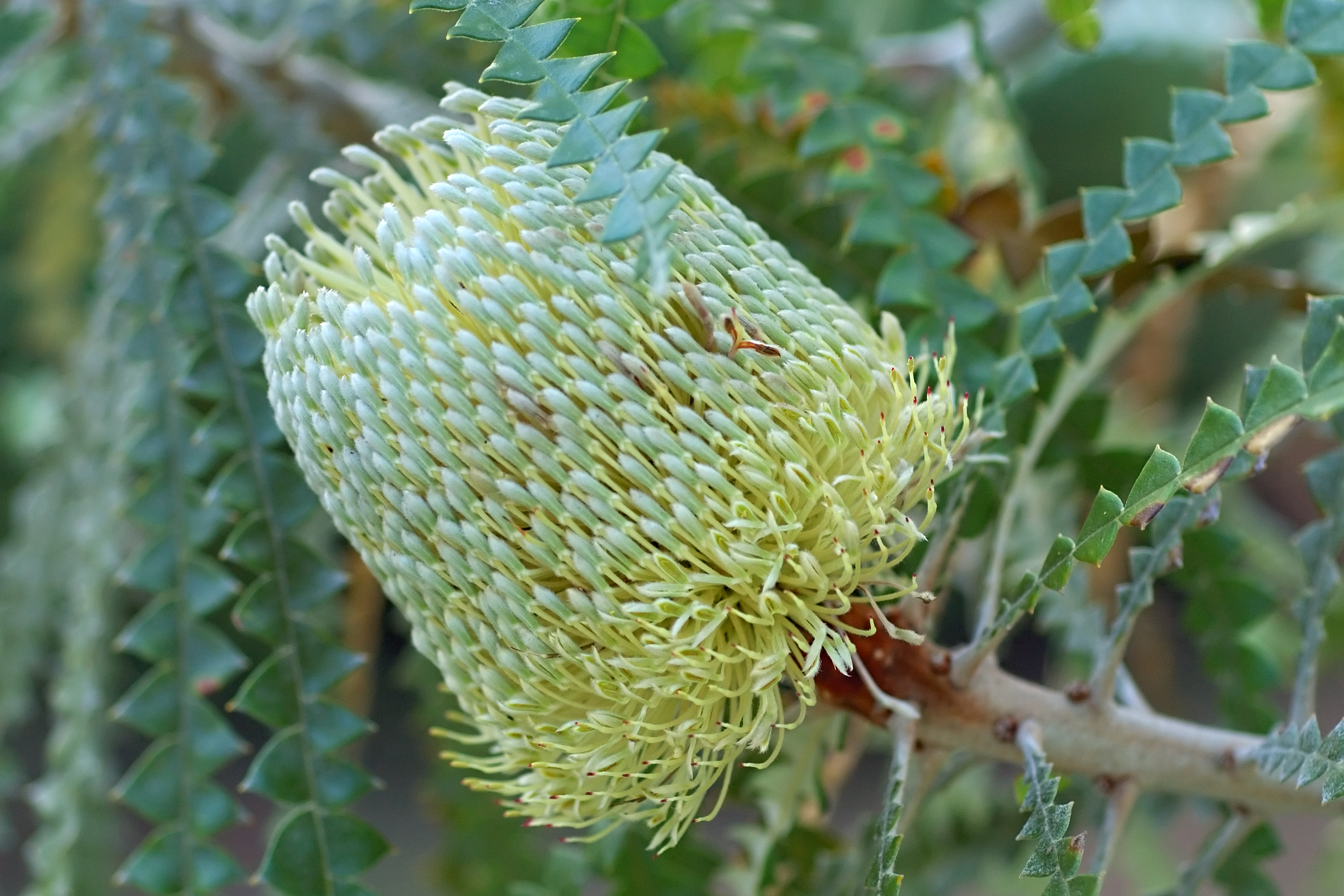 Banksia speciosa, photographed at The San Francisco Botanical Garden at Strybing Arboretum